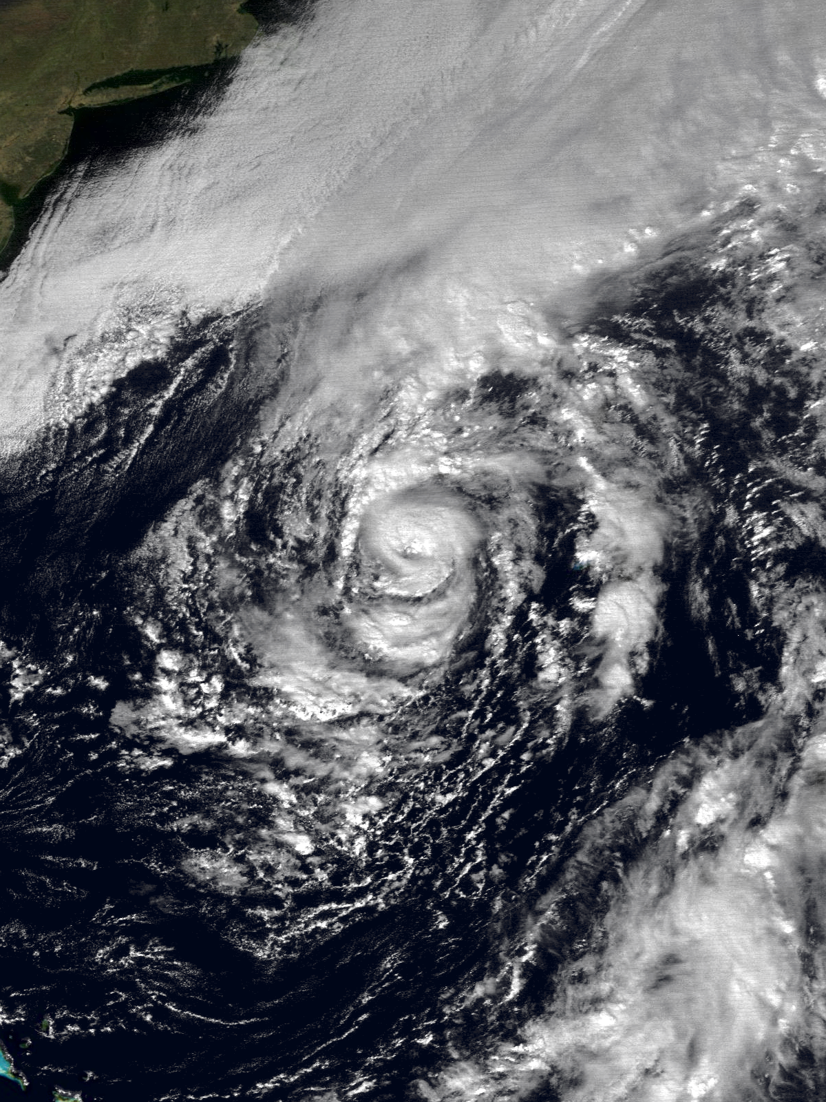 Hurricane Grace near the island of Bermuda as a Category 1 hurricane on October 28, 1991